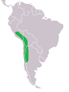 Chloephaga melanoptera range map